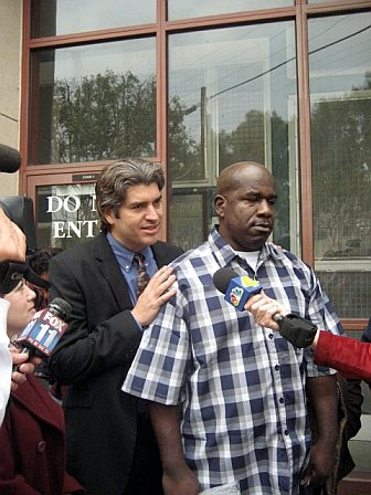 Justin Brooks and CA Innocence Project client Tim Atkins outside courthouse